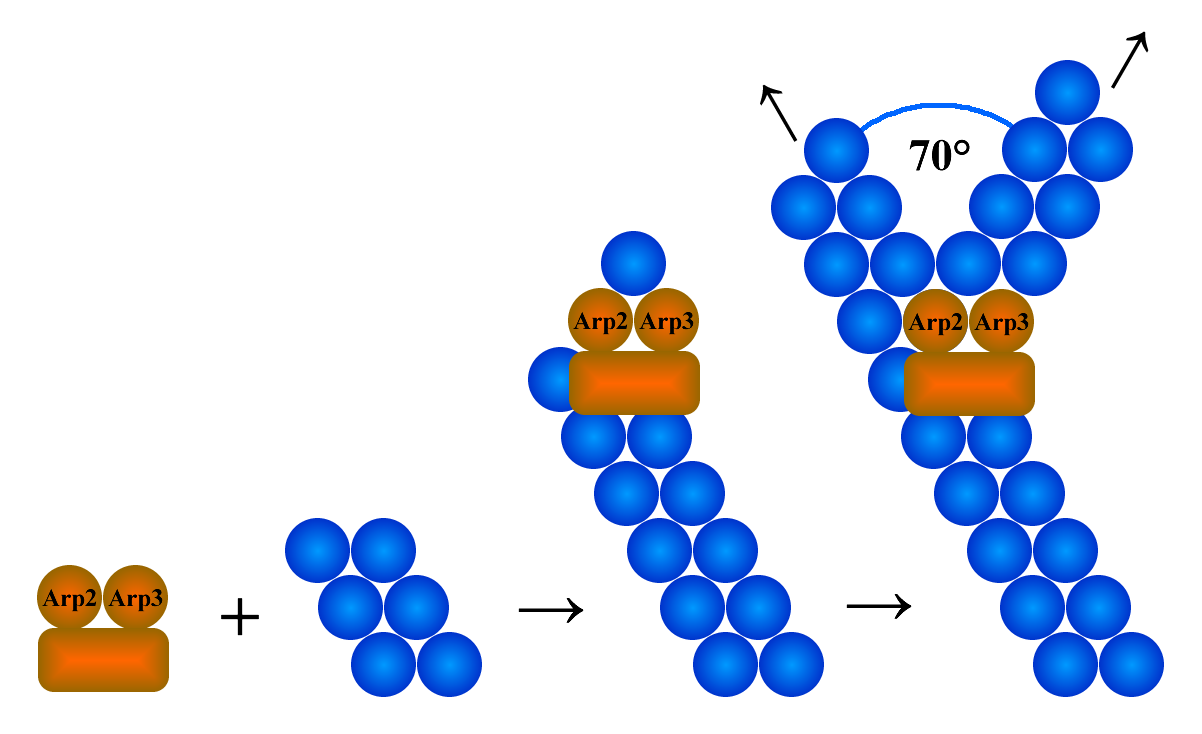 schematic description of the barbed end branching model of the Arp2/3 complex